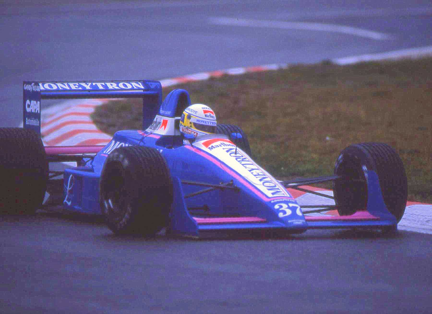 Bertrand Gachot - Onyx-Ford. Scan Diapo argentique.